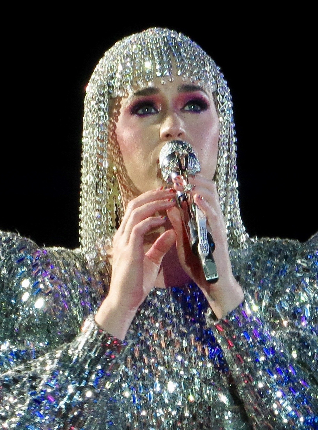 Katy Perry 12